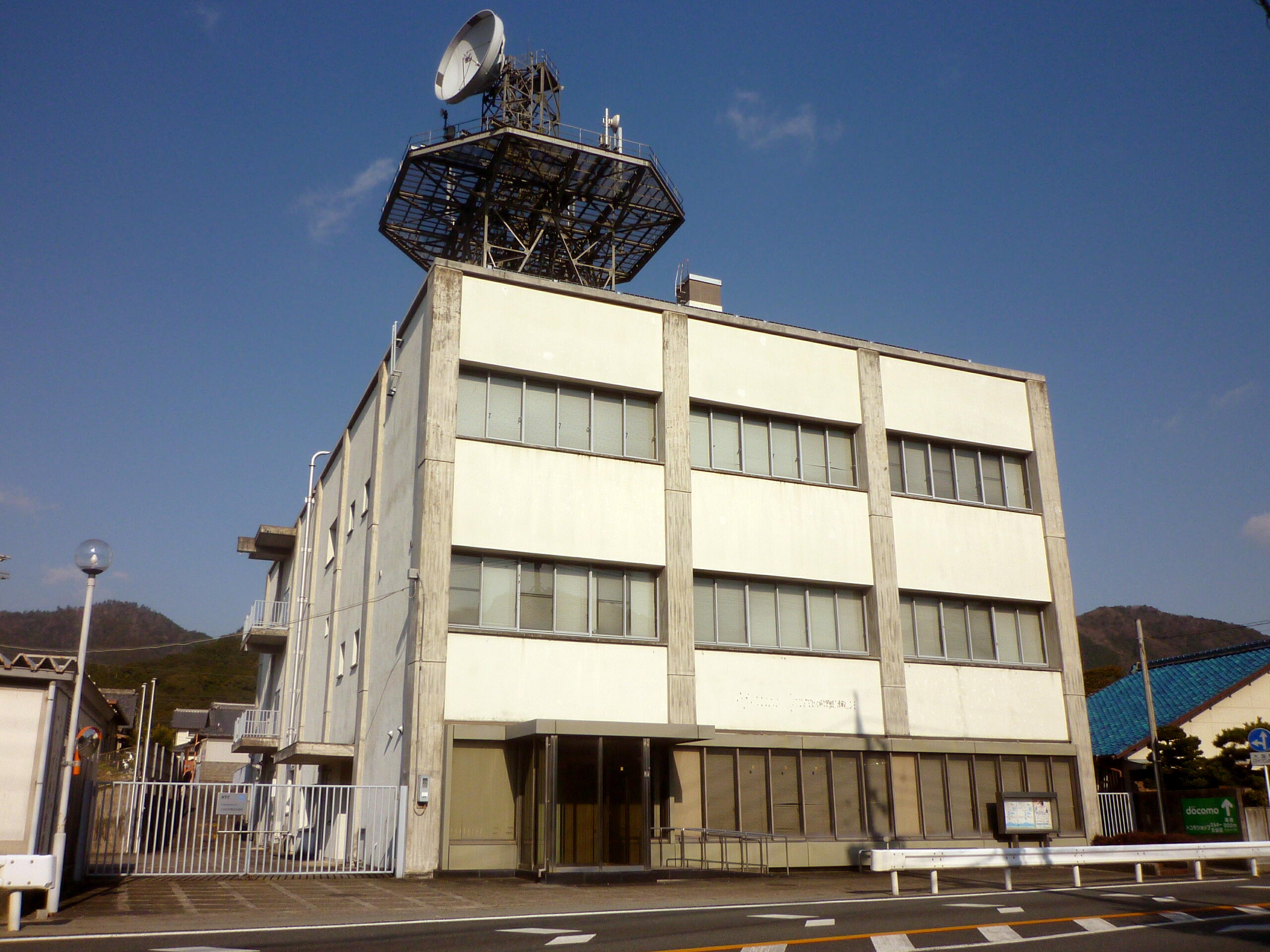 The "NTT Ōdai-Sawara Telephone Exchange Building" in Sawara, Ōdai Town, Taki District, Mie Prefecture, Japan.